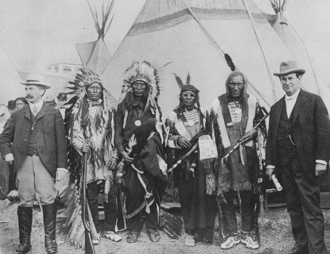 Chief Blue Horse, Pan American Exposition, 1901. Sioux chief with William Jennings Brian. Left to right: F.T. Cummins, General Manager of the Exposition' High Hawk, Jack Red Cloud; Blue Horse; Little Wound; and William Jennings Brian. Photographer Frances Benjamin Johnston. Library of Congress, Call Number: LC-USZ62-83129 Other information No.